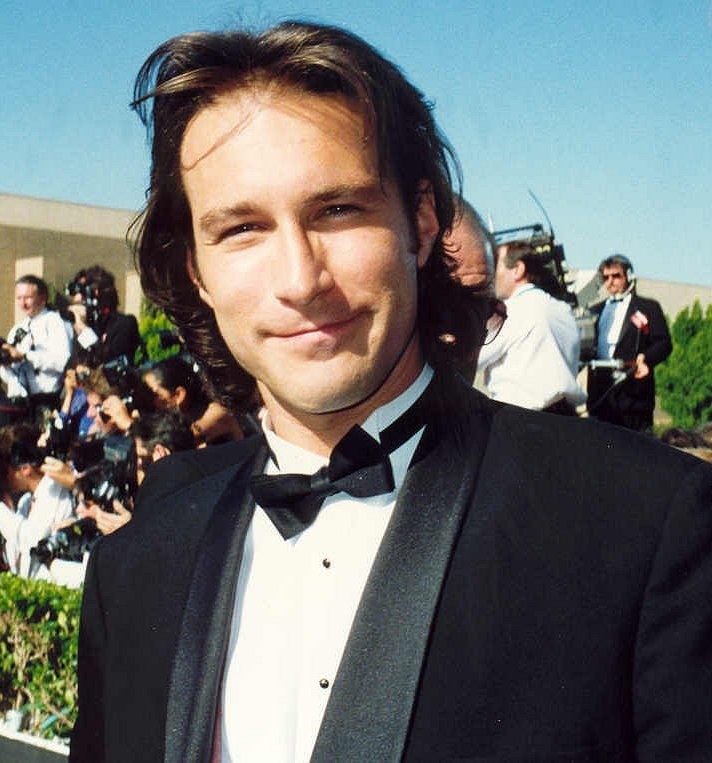 John Corbett at the 44th Emmy Awards 8/92